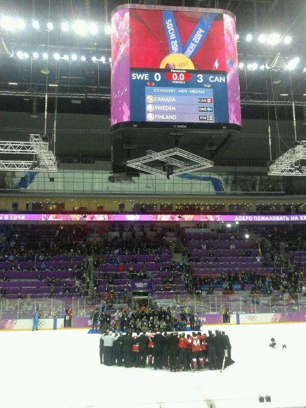 At the end of the Hockey final game at Sochi 2014.